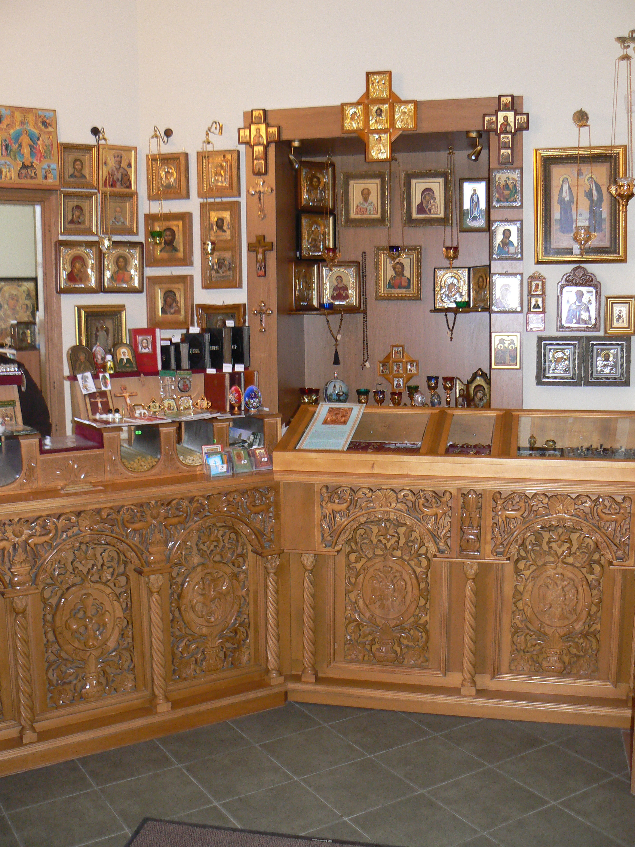 Interier of The russian orthodox chapel in Palanga